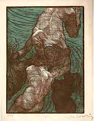 Ila [Idylles de Théocrite], woodcut in two colors, 235 x 173 mm.